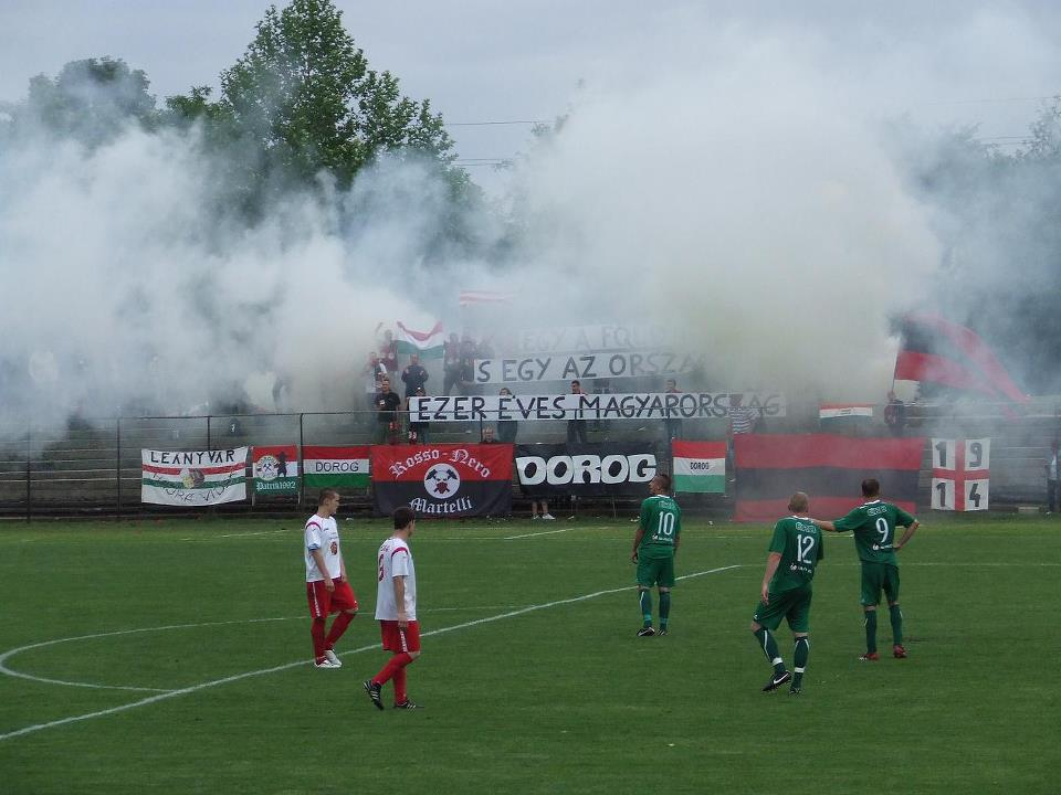 Pyrotechnic activity by Dorog fans